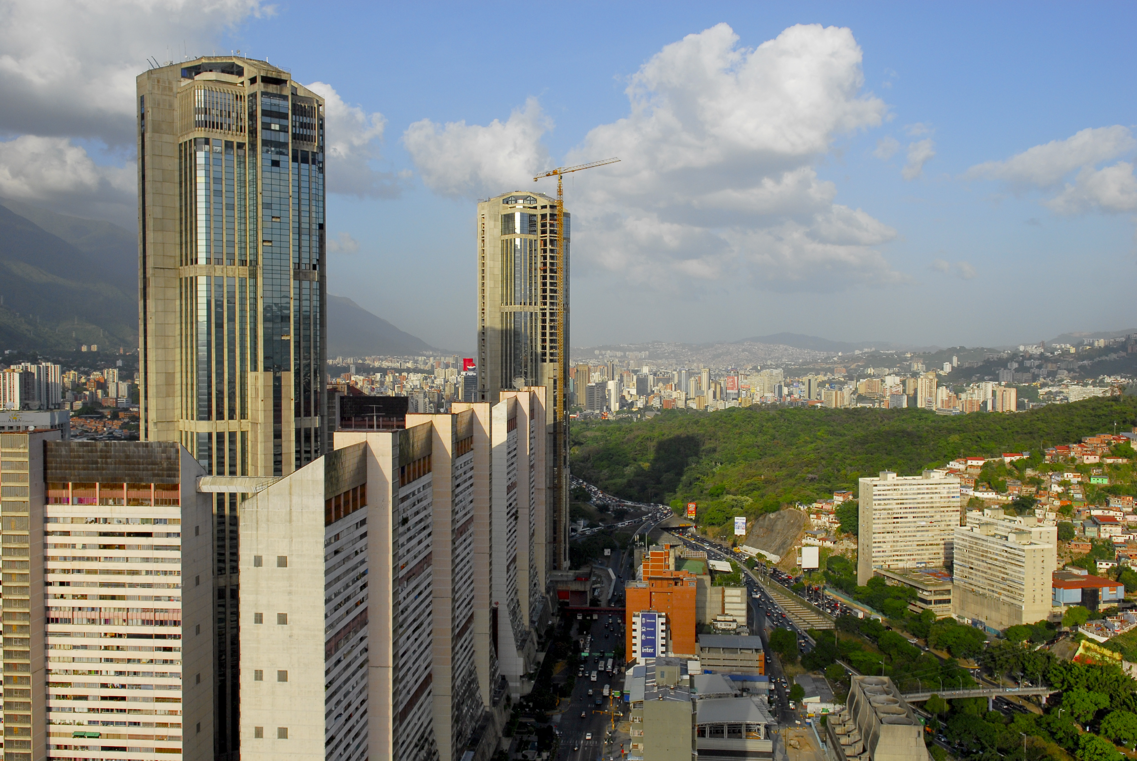 Aerial View from Parque Central Twin Towers. Caracas, Venezuela.